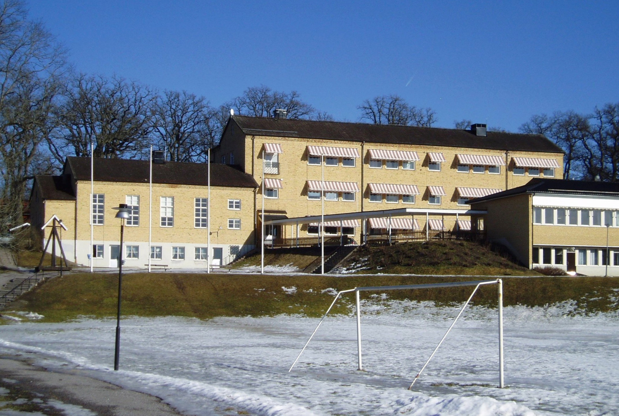 Ekebyholm, independent school, Rimbo, Sweden